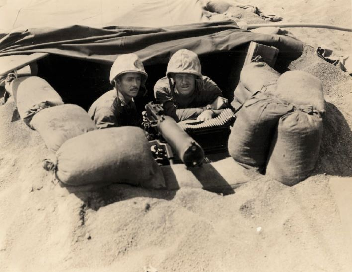 133 CB Hq Security platoon machine gun crew of two ships cooks on the defense parameter of yellow beach.